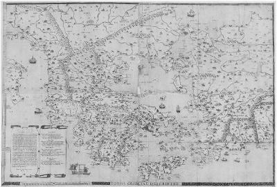 16th c. map of Greece